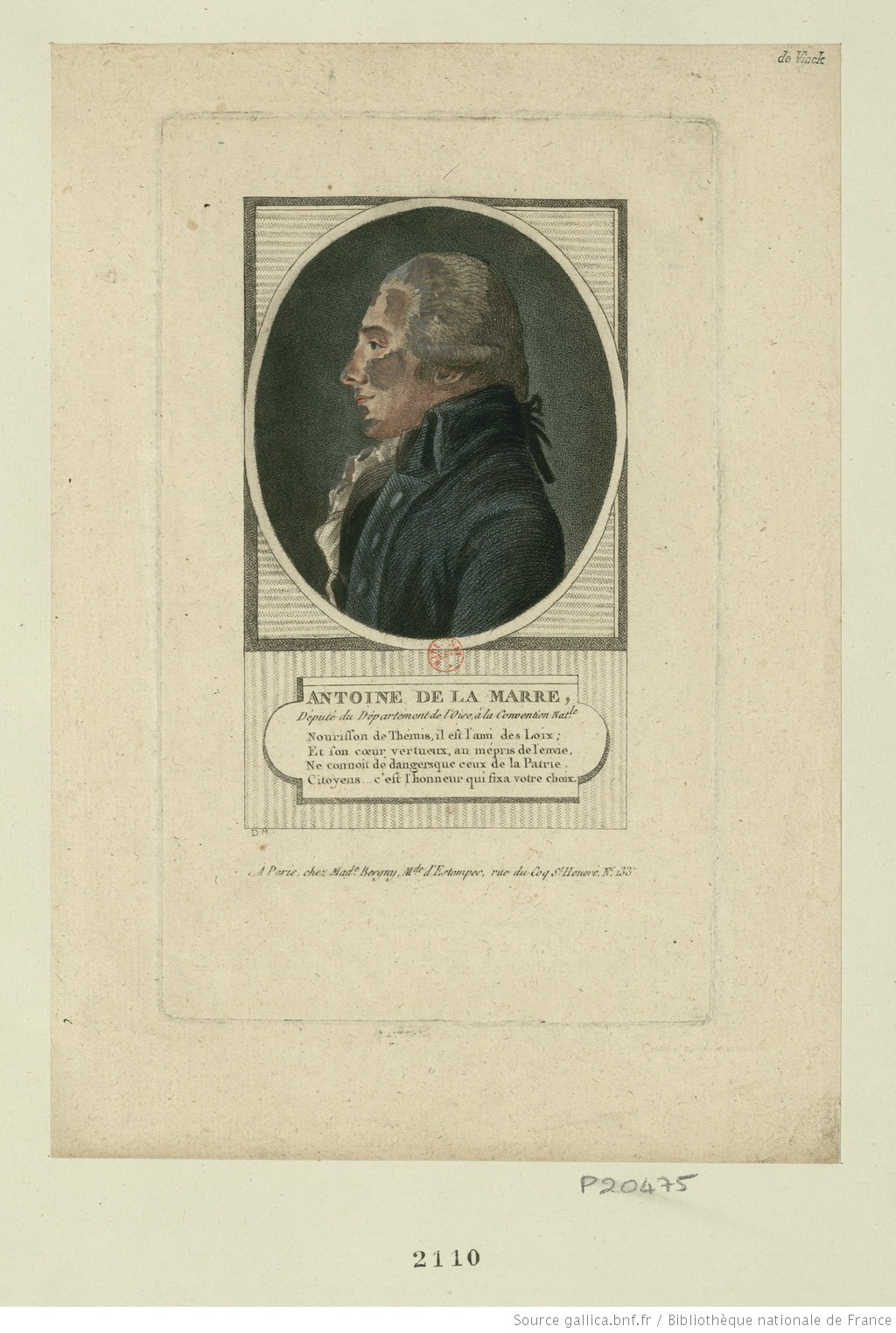 Politician and notary. Administrator of the department of Oise. Member of the National Convention, Member of the Council of Five Hundred, then of the Council of Elders. Mayor of Grandvilliers-aux-Bois (Oise)